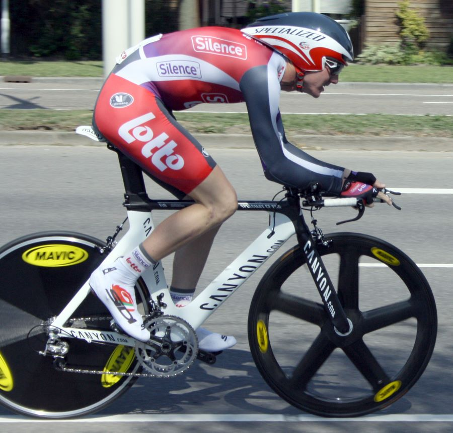 Jurgen Van Den Broeck at the 2009 Eneco Tour prologue